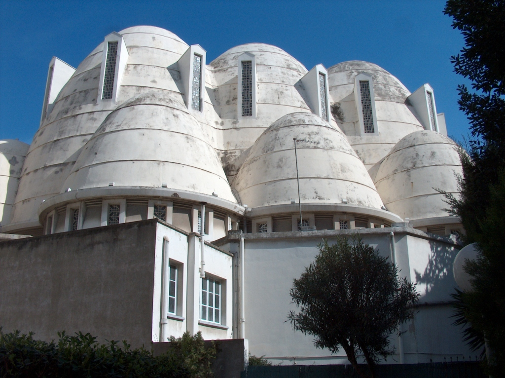 Liberation, Nice, France